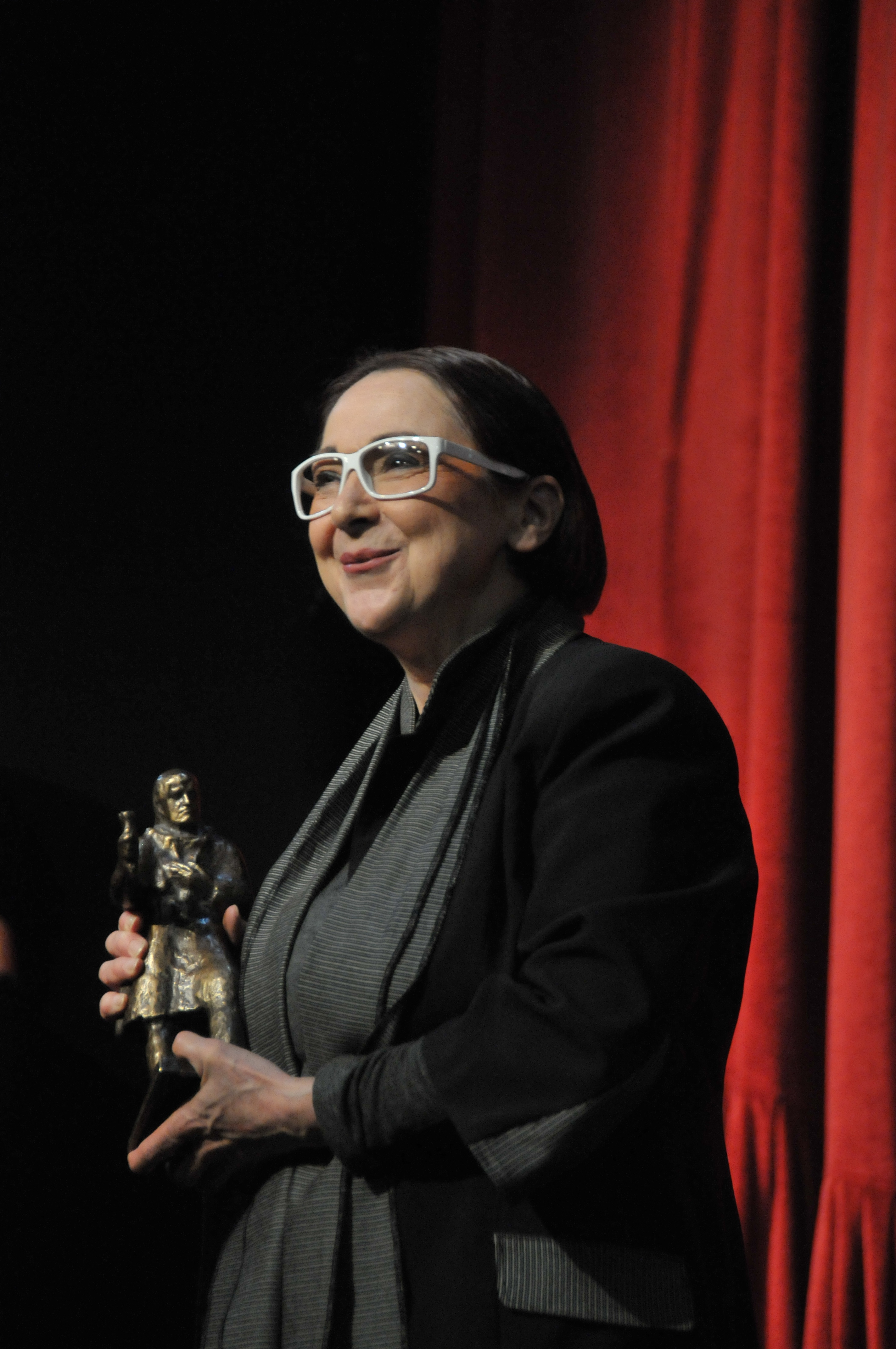 Actress at Knjaževsko-srpski teatar.